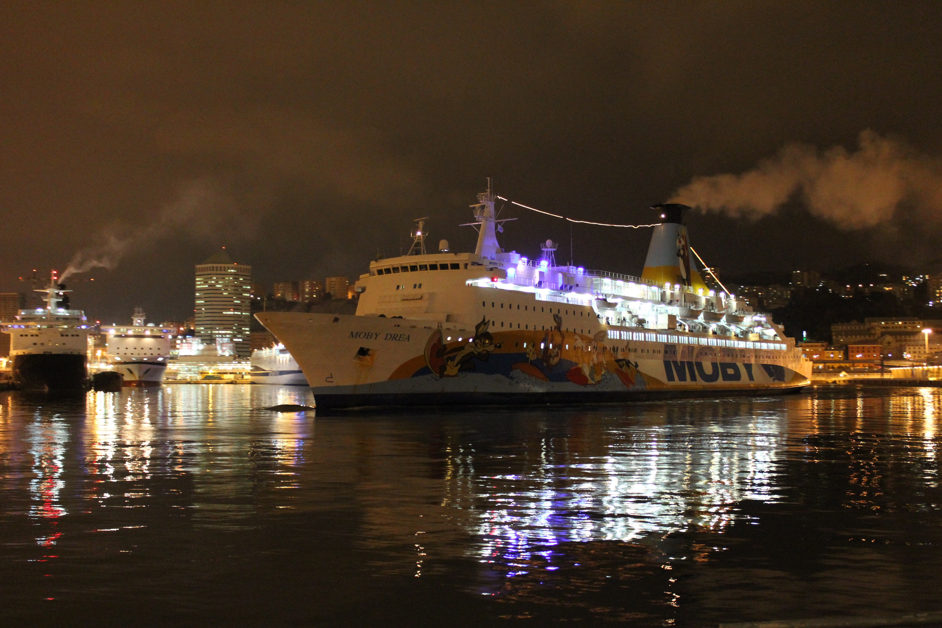 Ferry "Moby Drea" departing from Genua's harbour